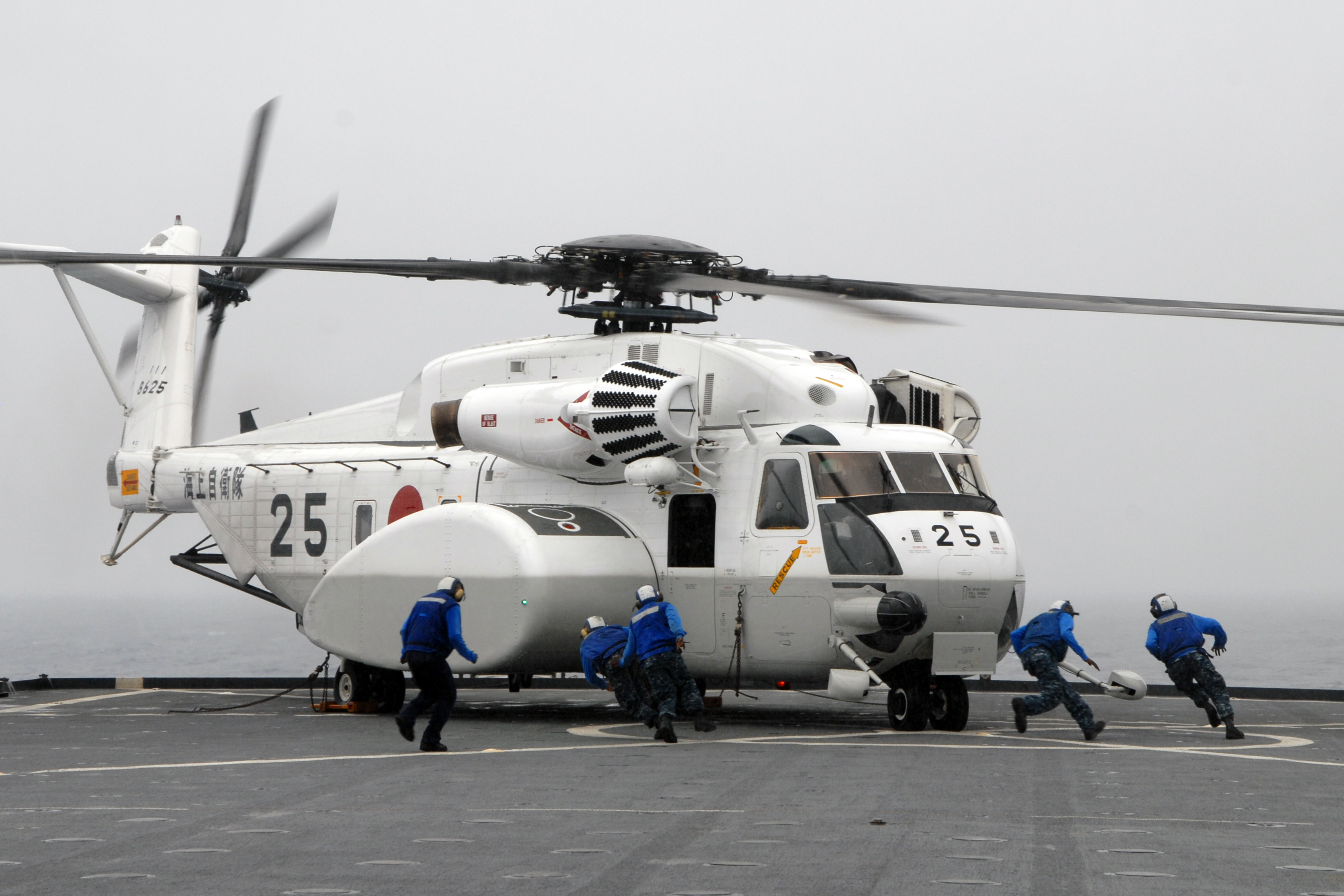 PHILIPPINE SEA (Oct. 31, 2011) An MH-53E Sea Dragon helicopter from the Japan Maritime Self-Defense Force (JMSDF) Helicopter Mine Squadron 111 lands aboard the amphibious dock landing ship USS Tortuga (LSD 46) during Annual Exercise 2011. Annual Exercise is a bilateral exercise intended to increase interoperability between JMSDF and the U.S. Naval. (U.S. Navy photo by Lt. Colby Drake/Released)